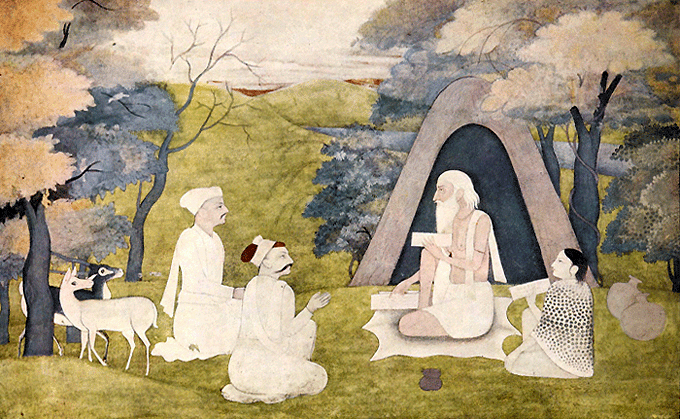 The Poet Valmiki, teaching Ramayana to Kusa and Lava Kangra School, late 18th c.